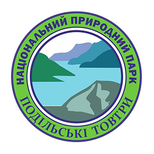 National Environmental Park Podilski Tovtry